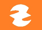 Flag of Otaki Nagano